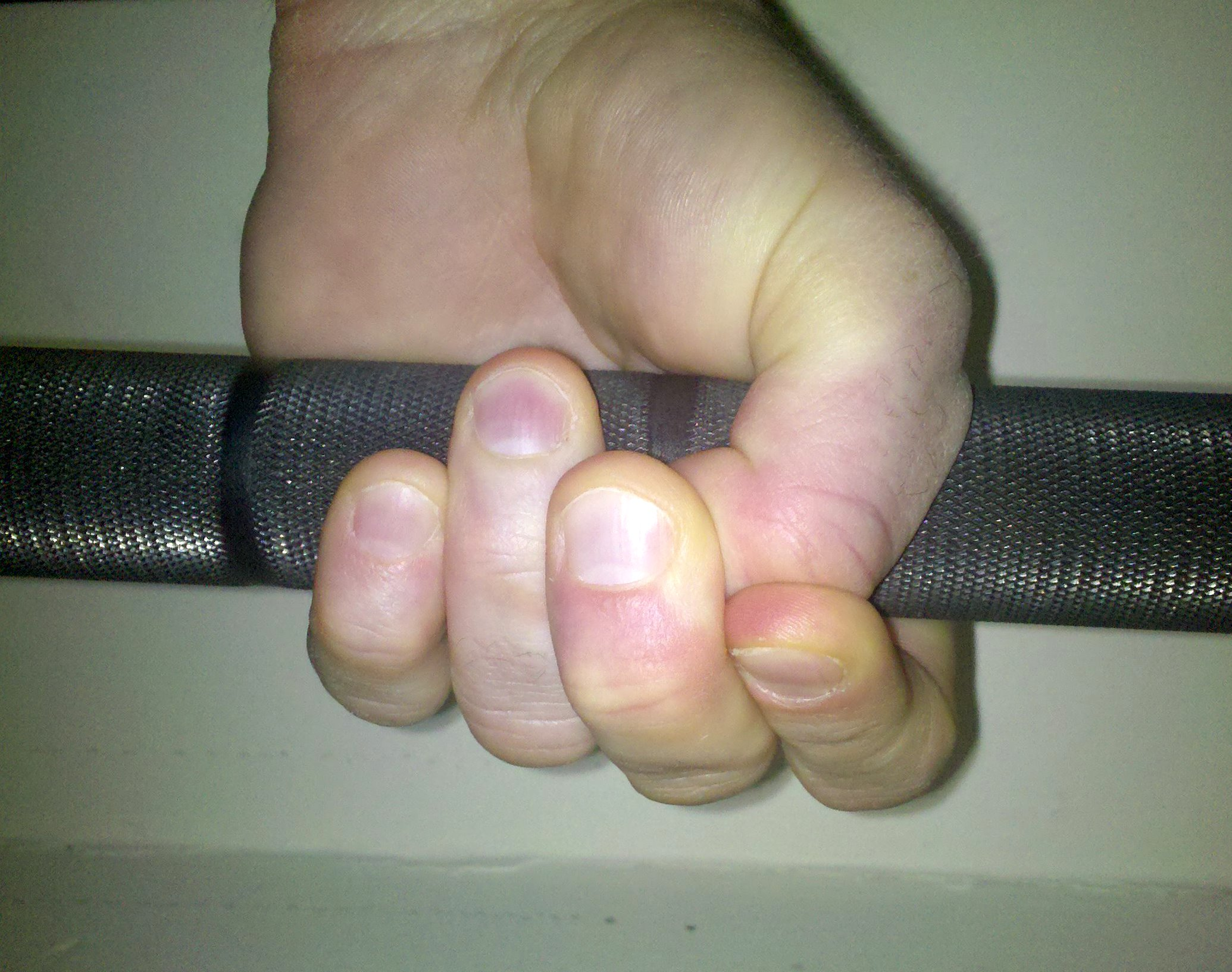 Olympic Weightlifting Hook Grip